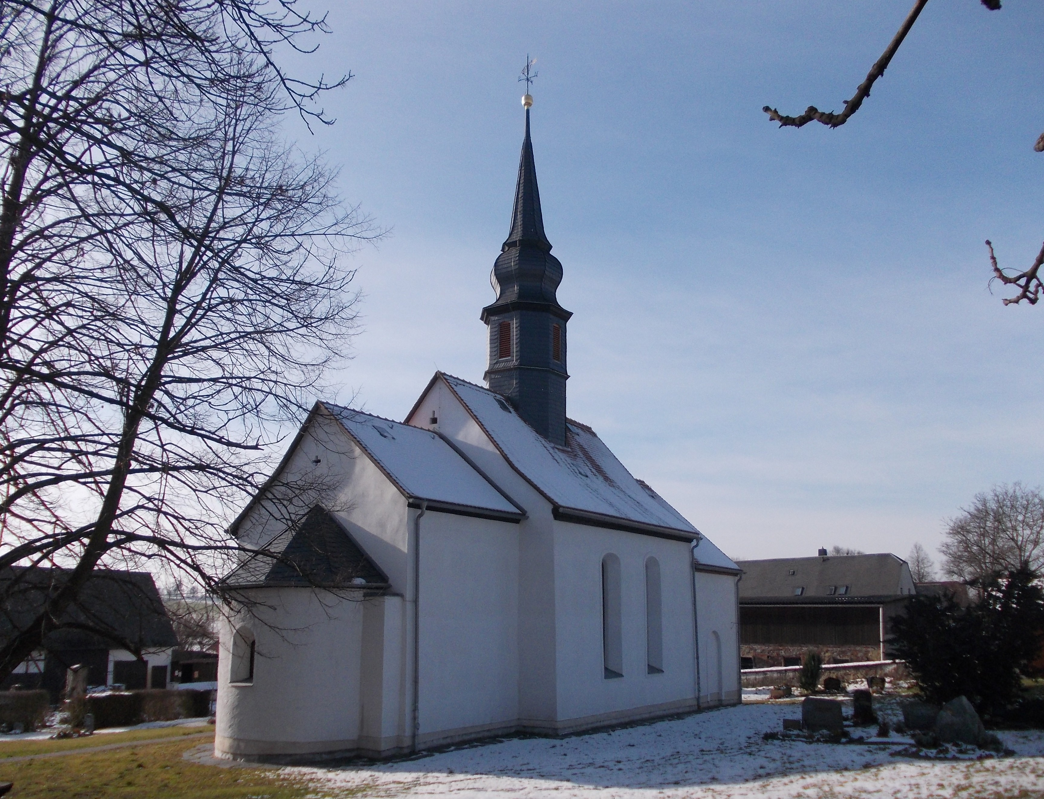 Waldsachsen church (Meerane, Zwickau district, Saxony)